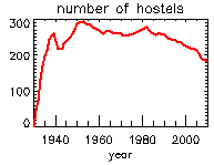 Number of YHA hostels, based on the lists at the page List of past and present youth hostels in England and Wales as of 1 July 2010. Because the lists do not say what time of year the hostels opened / shut, I assumed that on average that each hostel counts for 0.5 during the year when it opened and the year when it shut, and for 1.0 for every year in between. NB this does not allow for any opened and closed during 2010, the figure for 2010 is as of the date of the list, which claims to be end of 2009.